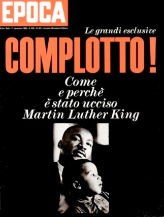 Cover of Epoca magazine, 17 novembre 1968, about Martin Luther King death. Arnoldo Mondadori Editore, Mondadori Group.